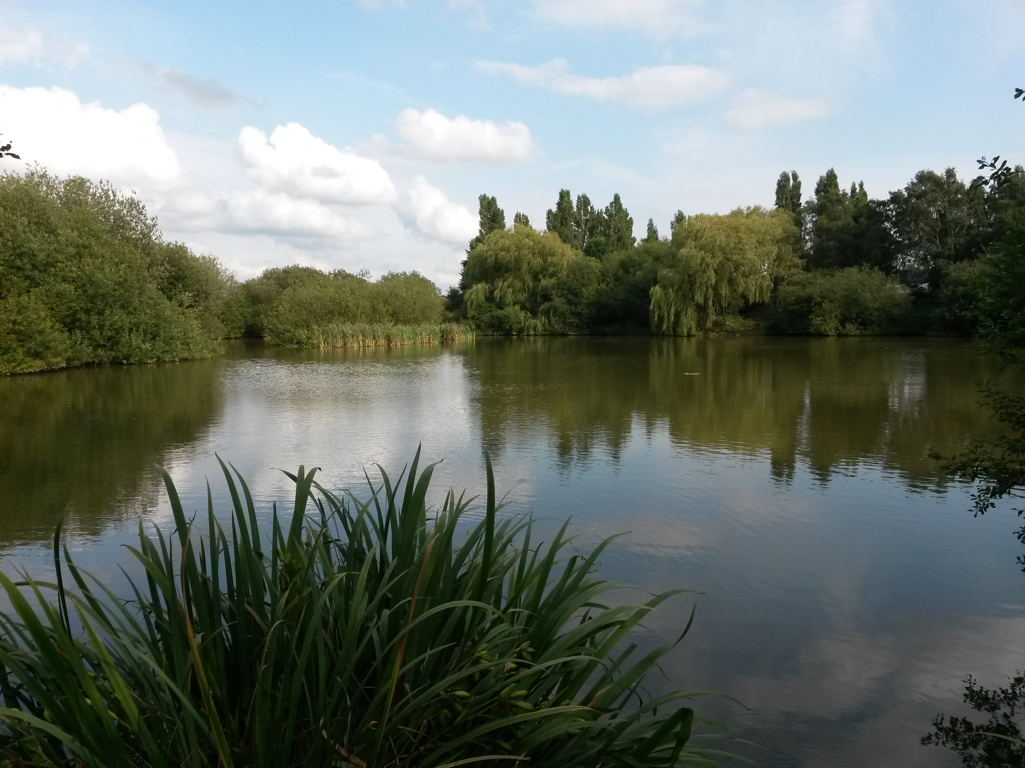 Small lake near Brick Kilm Holt, Jerusalem, Skellingthorpe. Largest body of water in the parish.